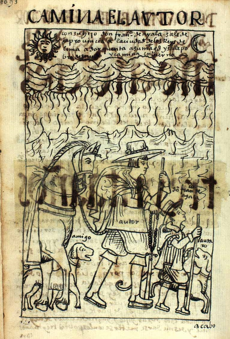 The author on his way to Lima (selfportrait).From Felipe Guaman Poma de Ayala (ca. 1550-1616): El primer nueva corónica y buen gobierno (Ms. Copenhagen, Royal Library, GKS 2232), page 1105.